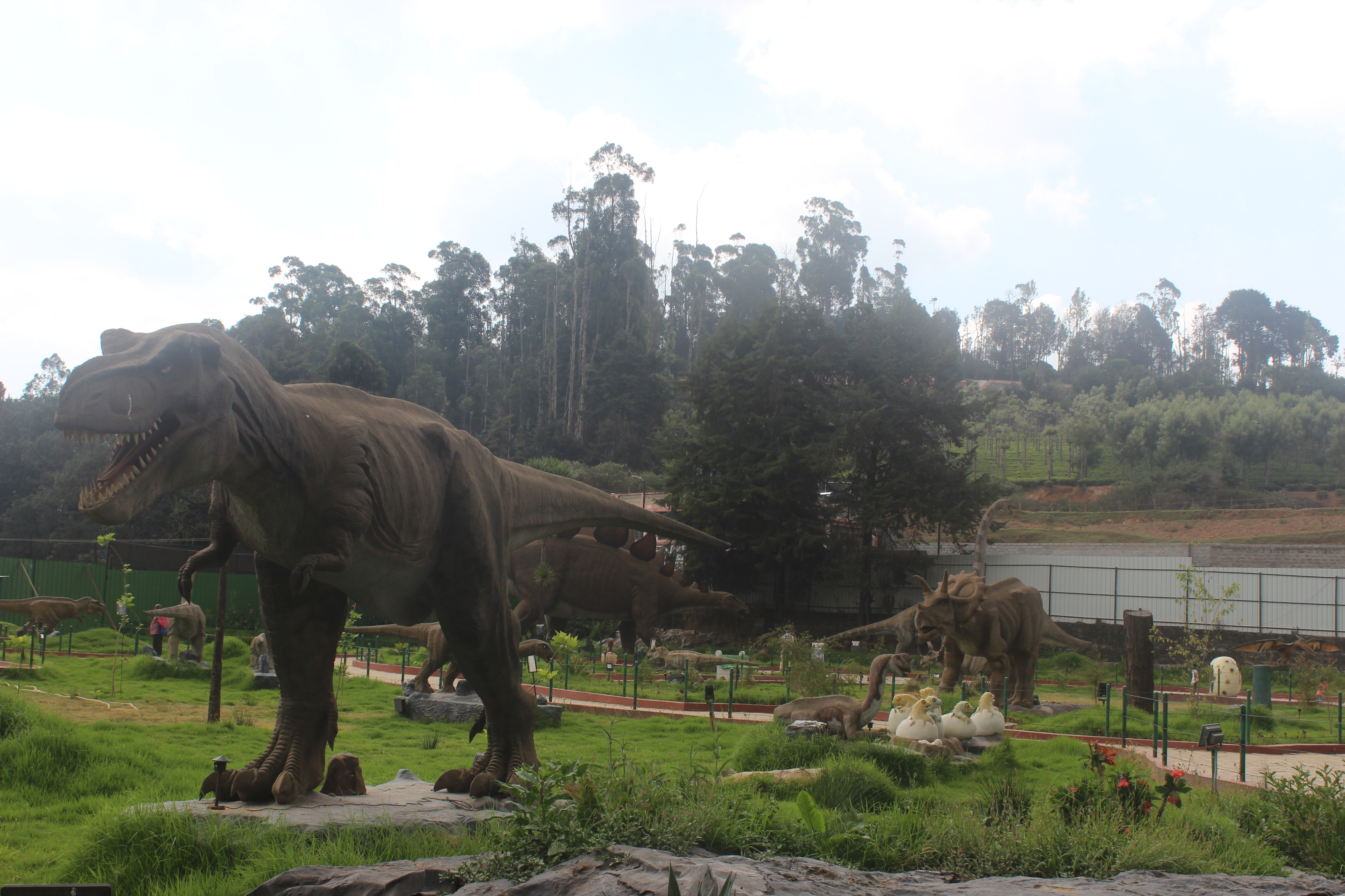 Dinosaurs Set in Thunder World Amusement Park - Ooty,Tamil Nadu